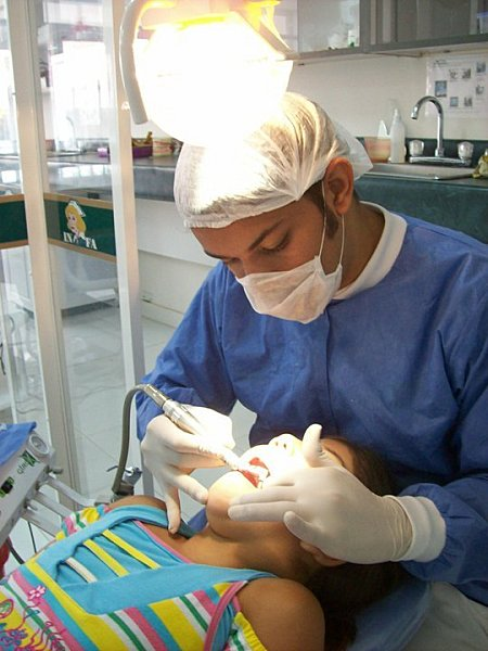 Assistant dentaire